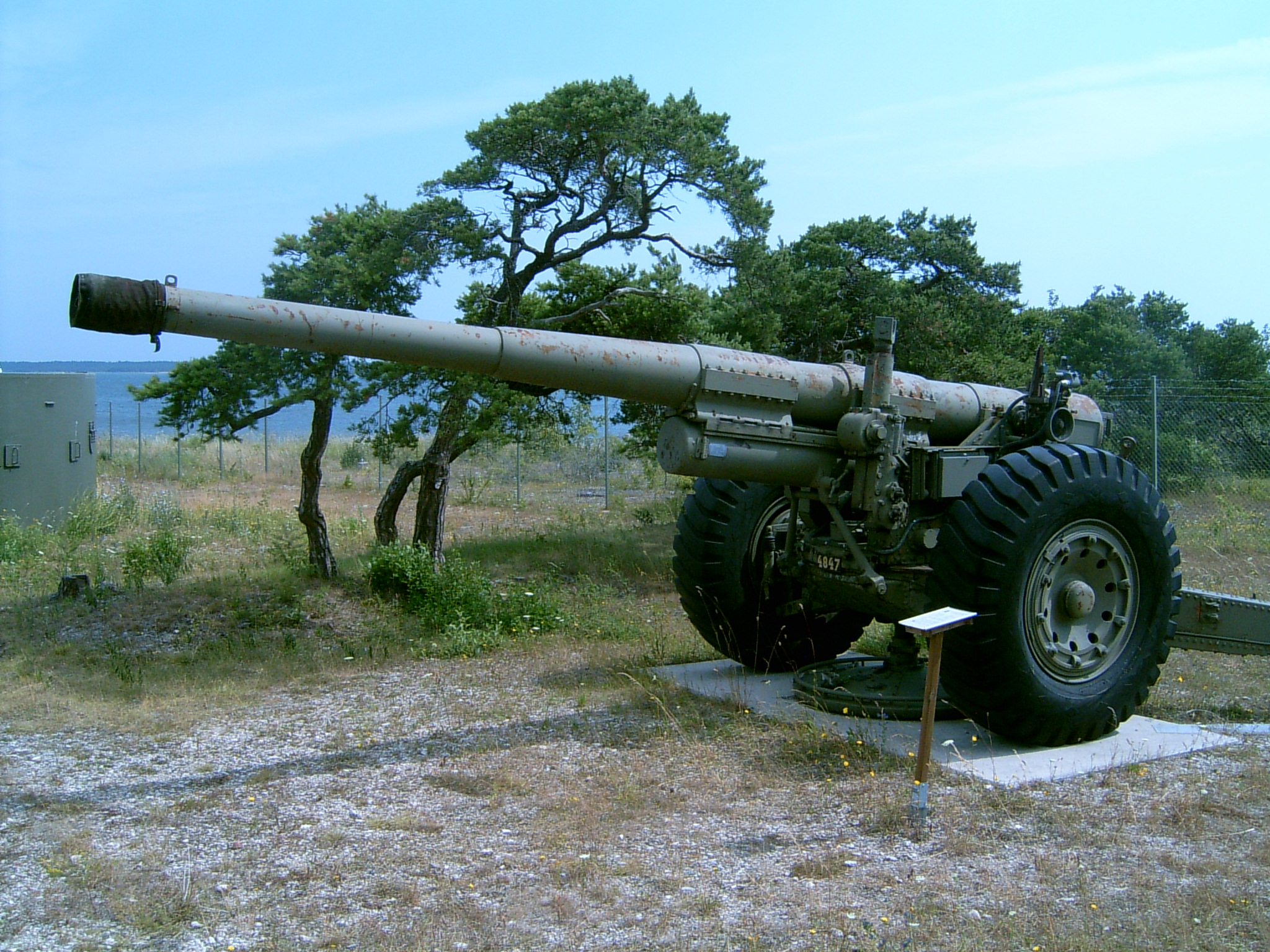 A Swedish artillery called 152 mm Coast Artillery Gun in Fårösund, northern Gotland, Sweden.